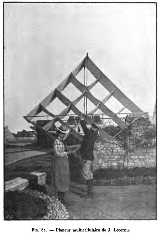 Multicellular glider of Joseph Lecornu, according to the GoogleBook "The Kites", by J. Lecornu, Librairie Nony & Cie, Paris, 1902